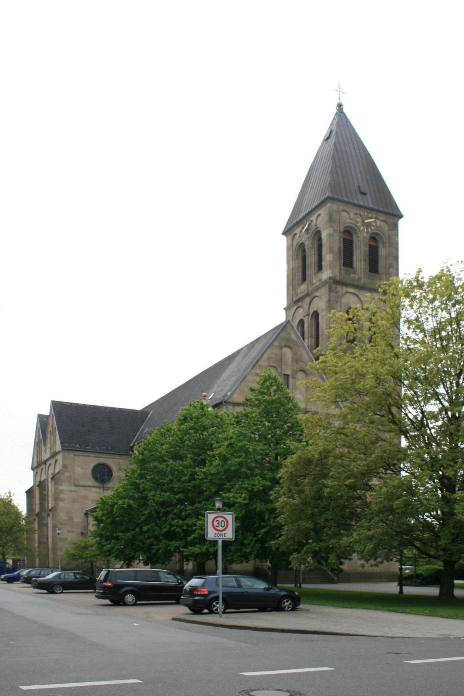 Cultural heritage monument No. A 024 in Mönchengladbach